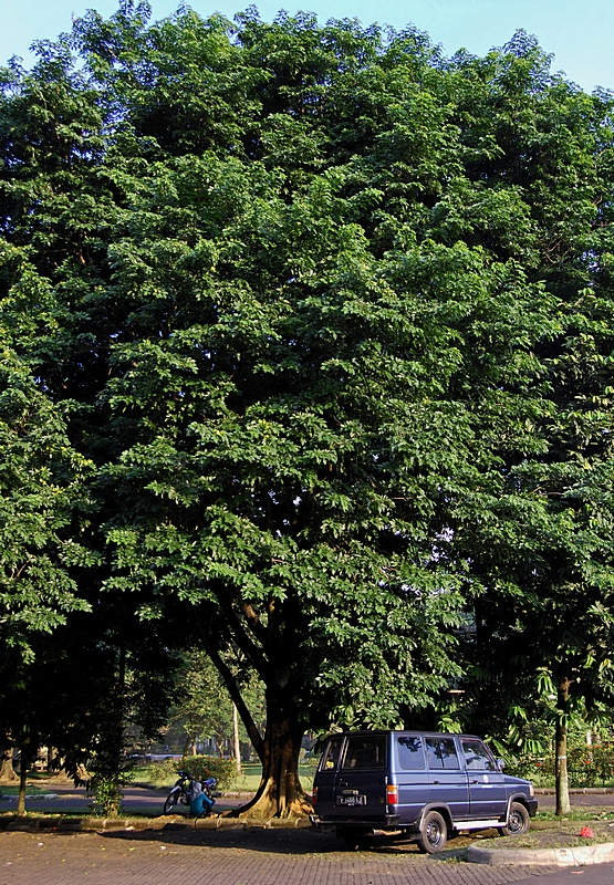 Pterocarpus indicus, habits. From Bogor, West Java, Indonesia.